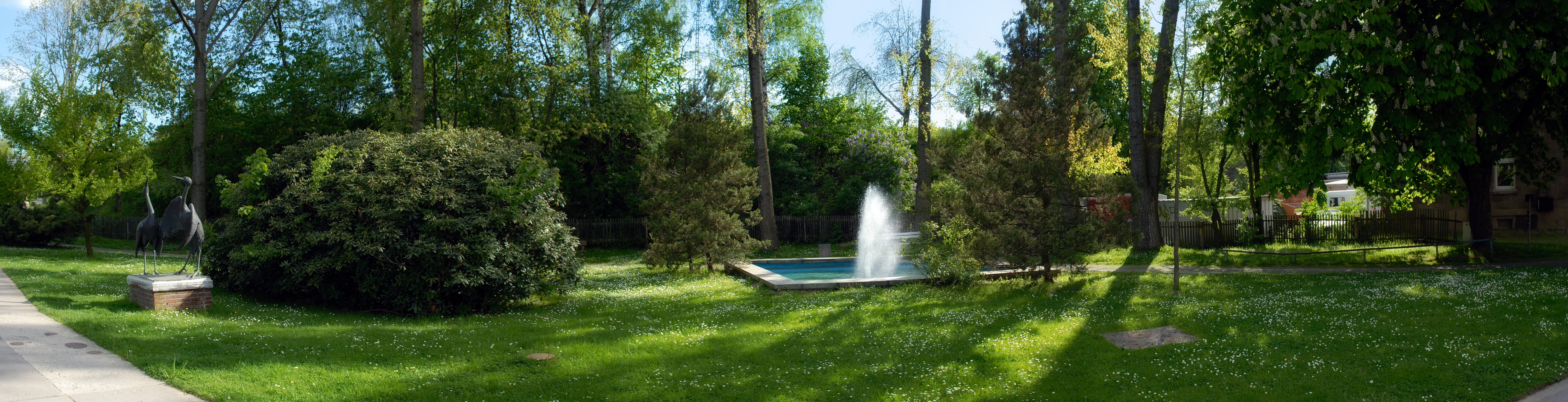 This image shows a small park near the savings bank in Flöha, Germany. It is a three segment panoramic image.